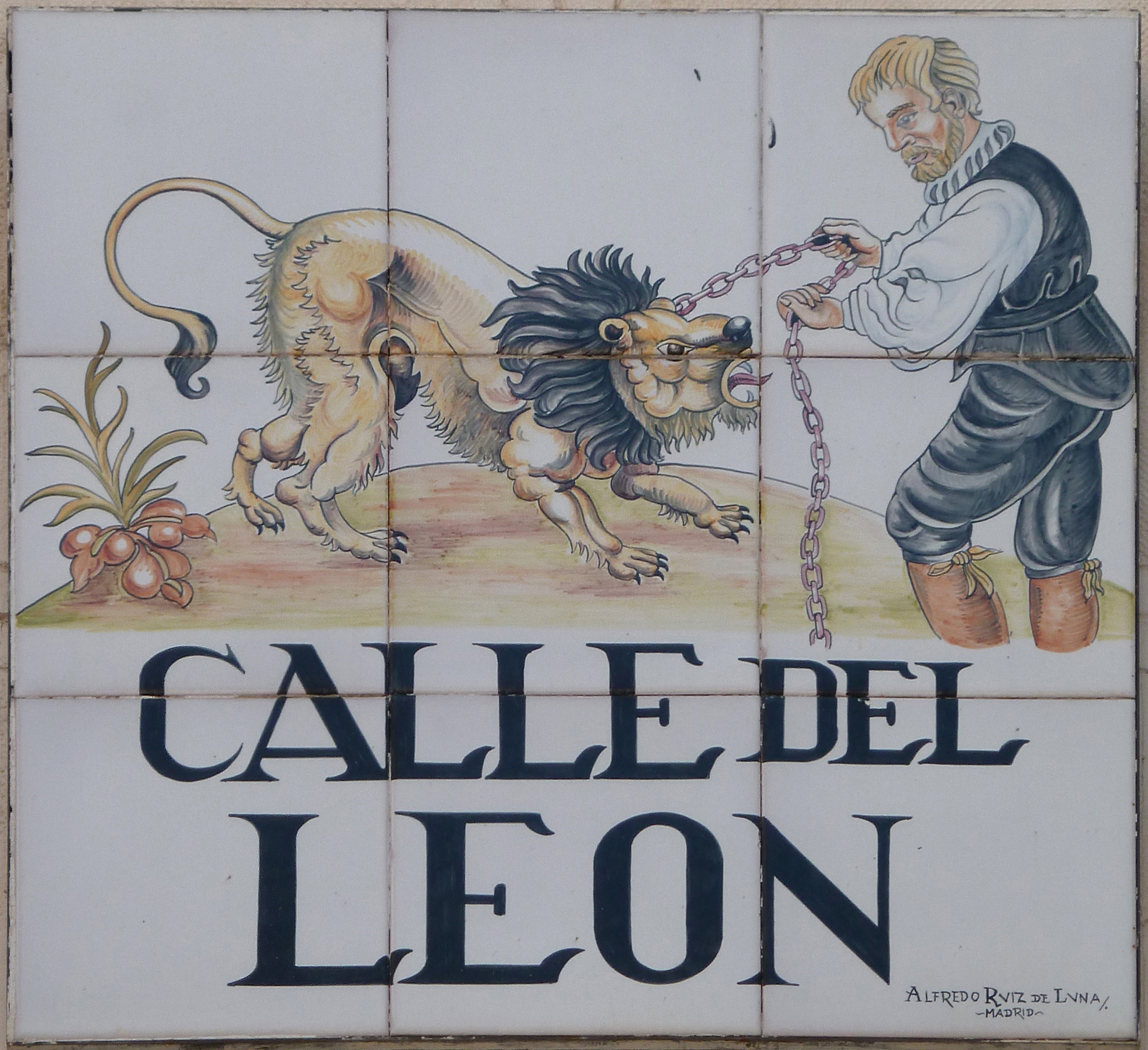 Sign of Calle del León (literally "Lion Street") in Centro district in Madrid (Spain).